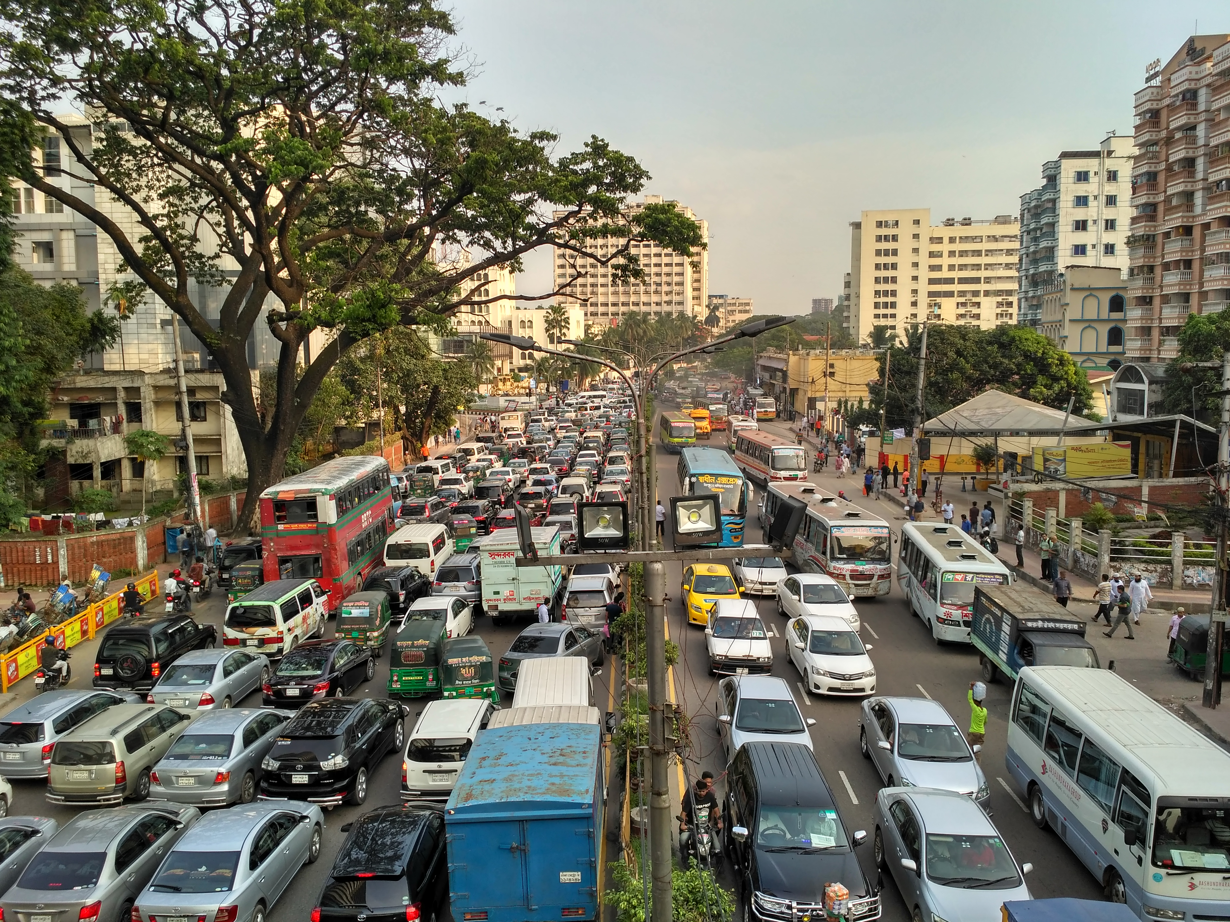 A South view of Kazi Nazrul Islam Ave Road from Paribag foot over bridge, Dhaka.